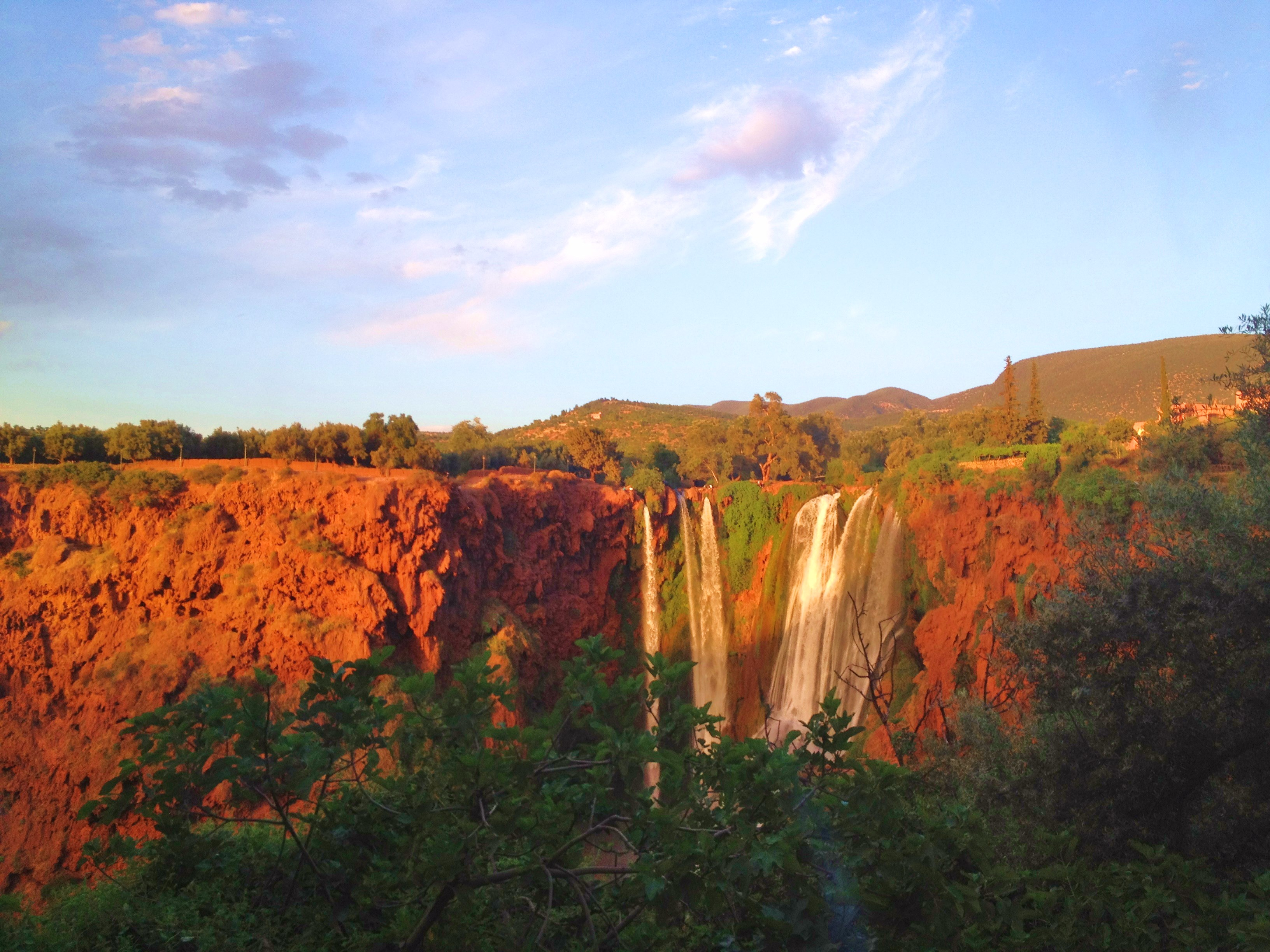 ouzoud atlas of Morocco